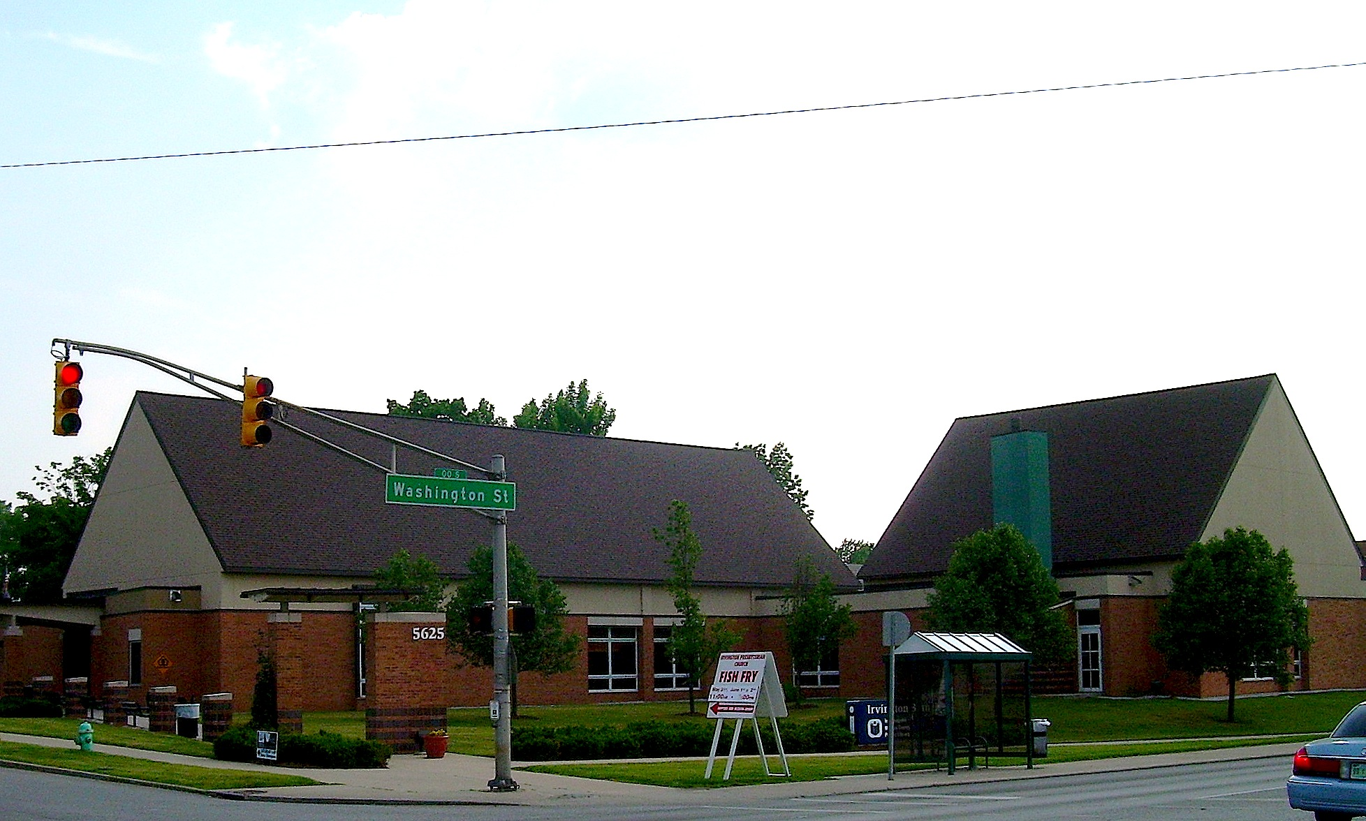 Irvington Branch Library, Washington Street - US40, Irvington, Indiana